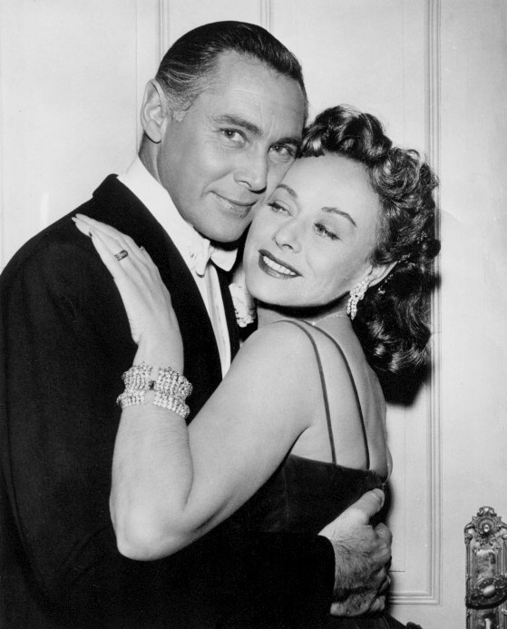 Publicity photo of Phillip Reed and Paulette Goddard from The Joseph Cotten Show: On Trial, 1957.